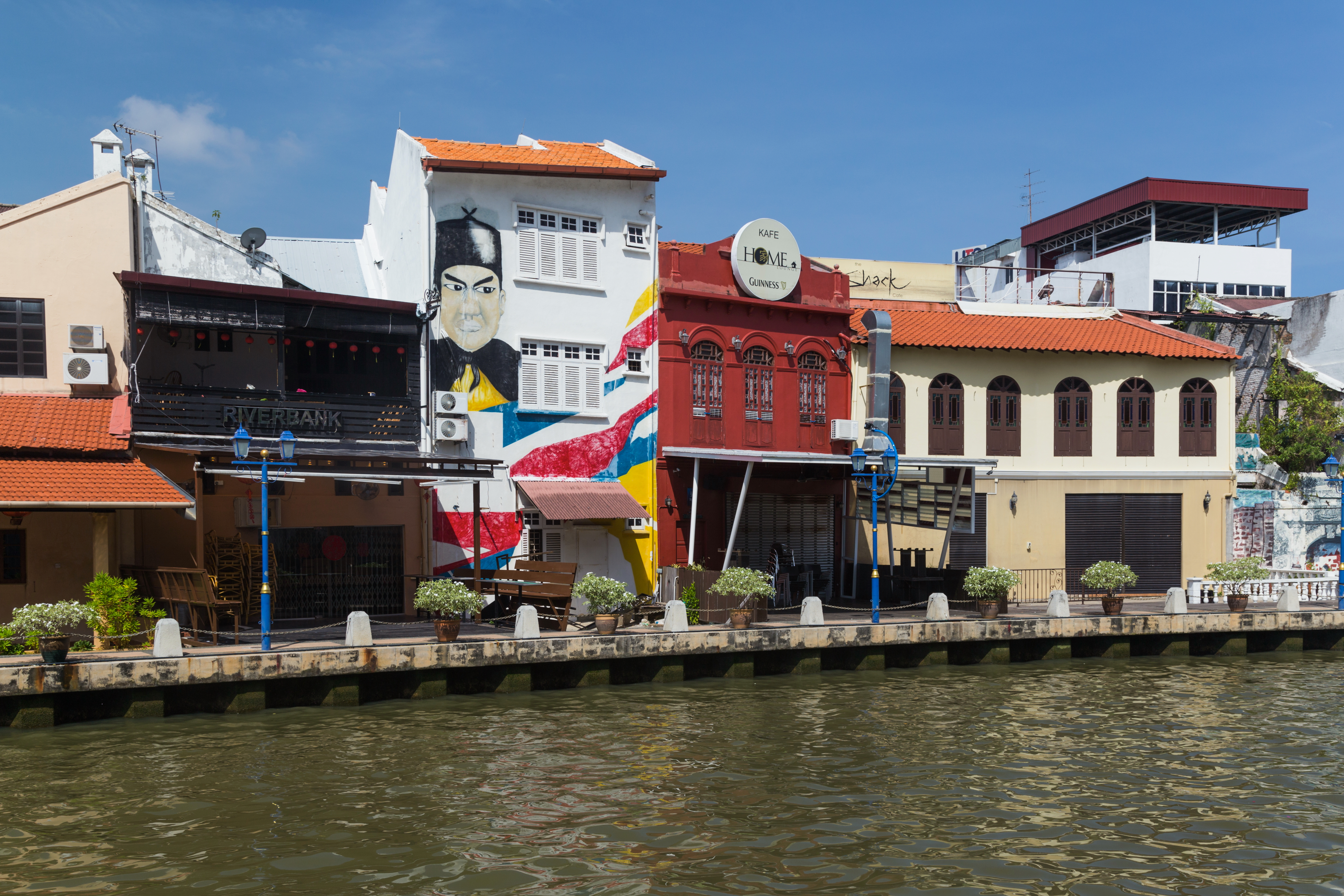 Buildings on the Malacca River. Malacca City, Malacca, Malaysia.